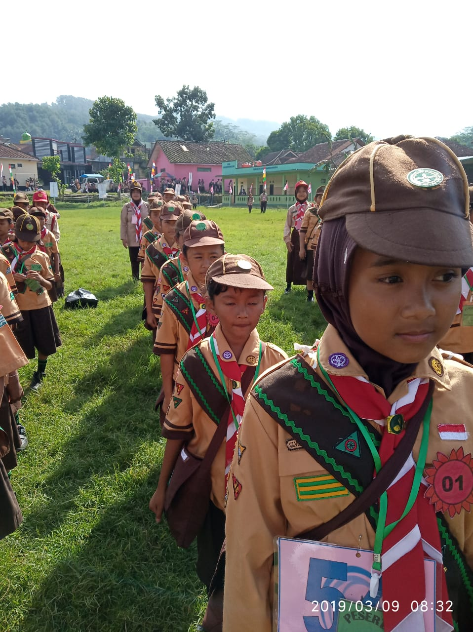 Pimpinan Barung Merah Pramuka Siaga SD N Pandanrejo tahun 2019